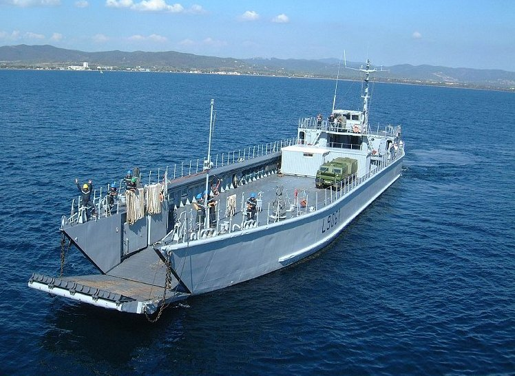 (no responsibility is taken for the correctness of this translation): The landing craft Rapière landing near Toulon (24th of Septembre 2003)